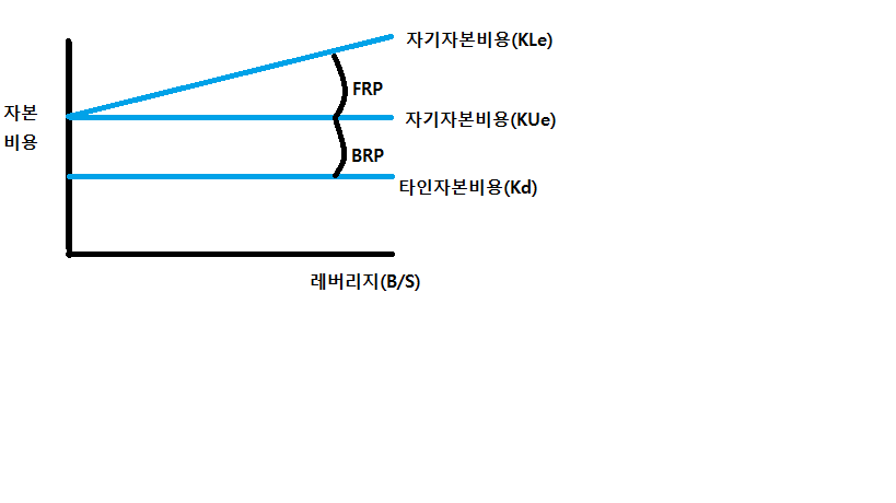 SSSSSSSSSSSSSSSSSSSSSS